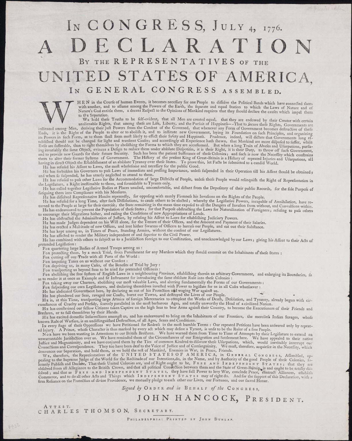 This image is a digital version of the "Dunlap Broadside" copy of the Declaration of Independence held at the Yale University Beinecke Rare Book and Manuscript Library. This image is available to download directly from the Yale University Beinecke Rare Book and Manuscript Library website at by searching for "Dunlap broadside."